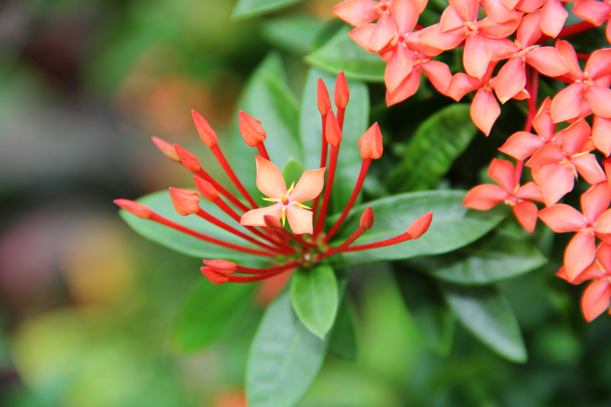 I am a shrub with glabrous branches and leathery blades, which are oblanceolate, oblong-oblanceolate, obovate, elliptic-oblong, or lanceolate, 6 to18cm long and 3 to 6 cm wide. I need to reduce watering in winter[1],growing at an altitude between 200 and 800m, among thicket or sparse forests.